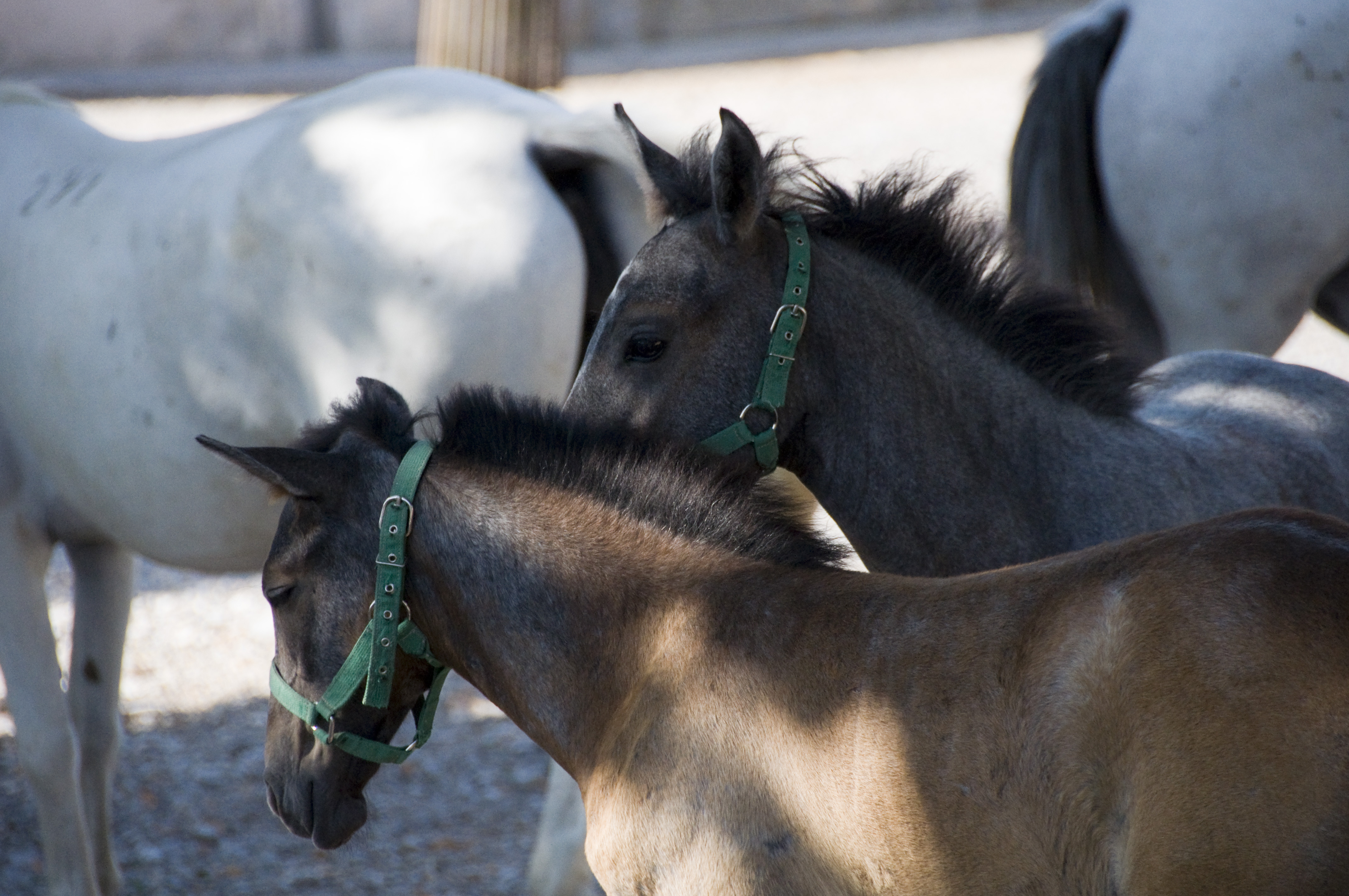 About 4 months old lipizzaners at Lipica stud farm